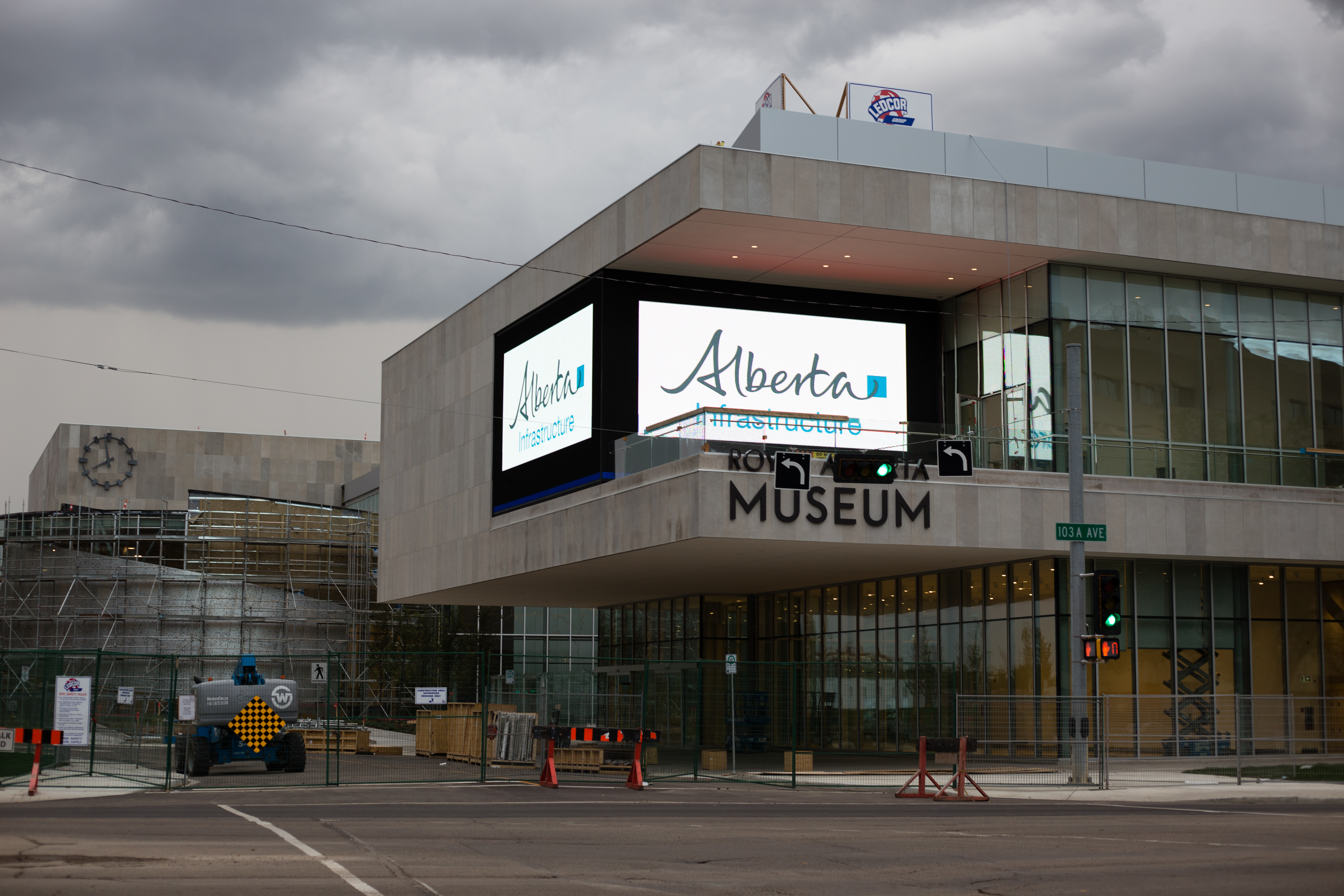 New building for the Royal Alberta Museum on August 24, 2016.